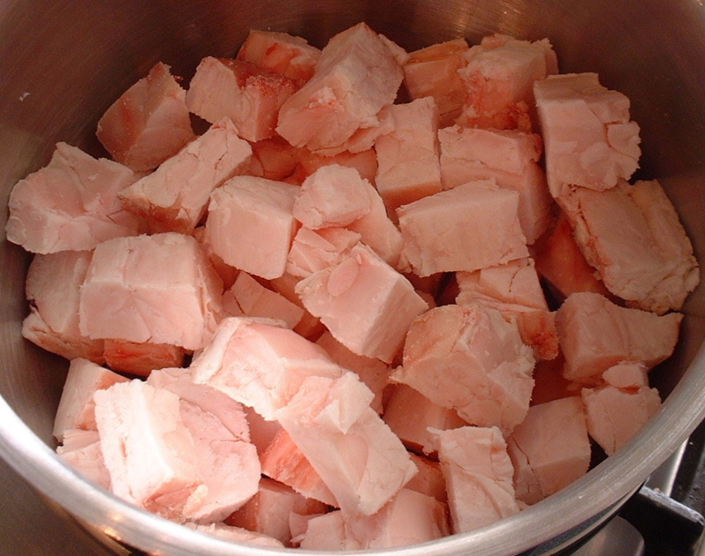 Slowly cook cubes of suet. (fat from the belly of a calf)